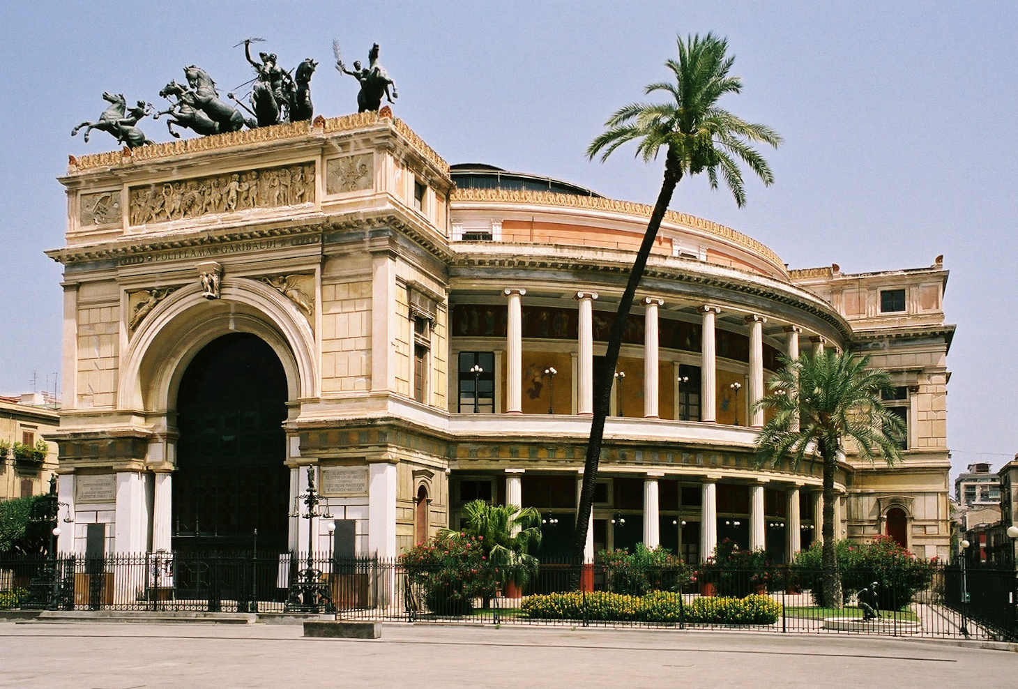 Teatro Politeama, Palermo. Built between 1867 and 1874.